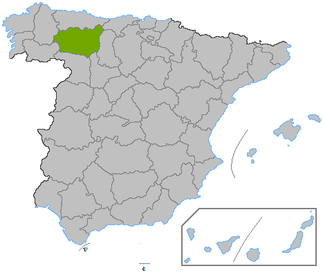 Location of the province of León, in Spain. Basado en: ProvPont.jpg Source: Designed by Satesclop. Original picture, designed by Sobreira.